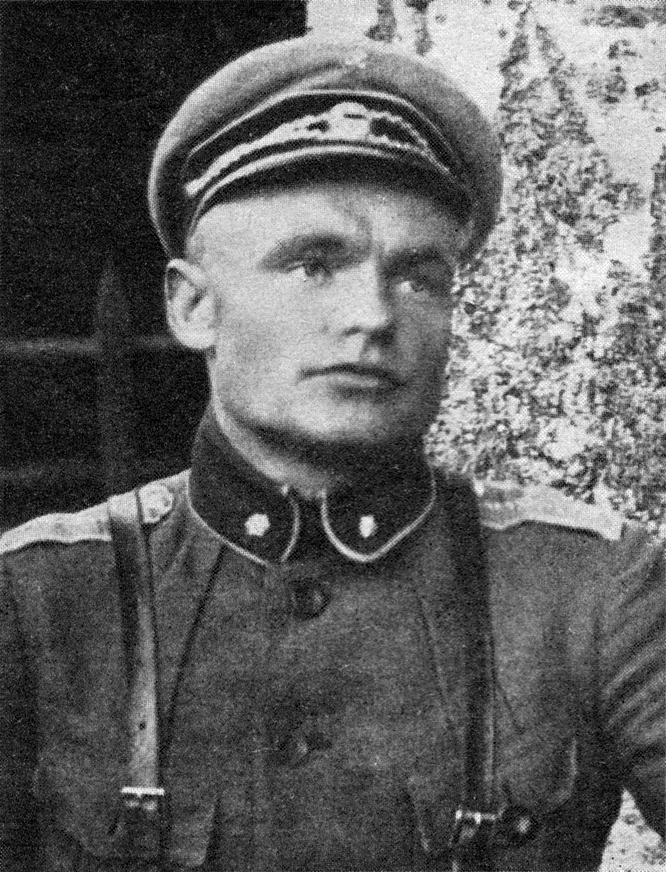 Lieutenant Jaan Kõue (Vastisson until 1936) in the Estonian War of Independence.